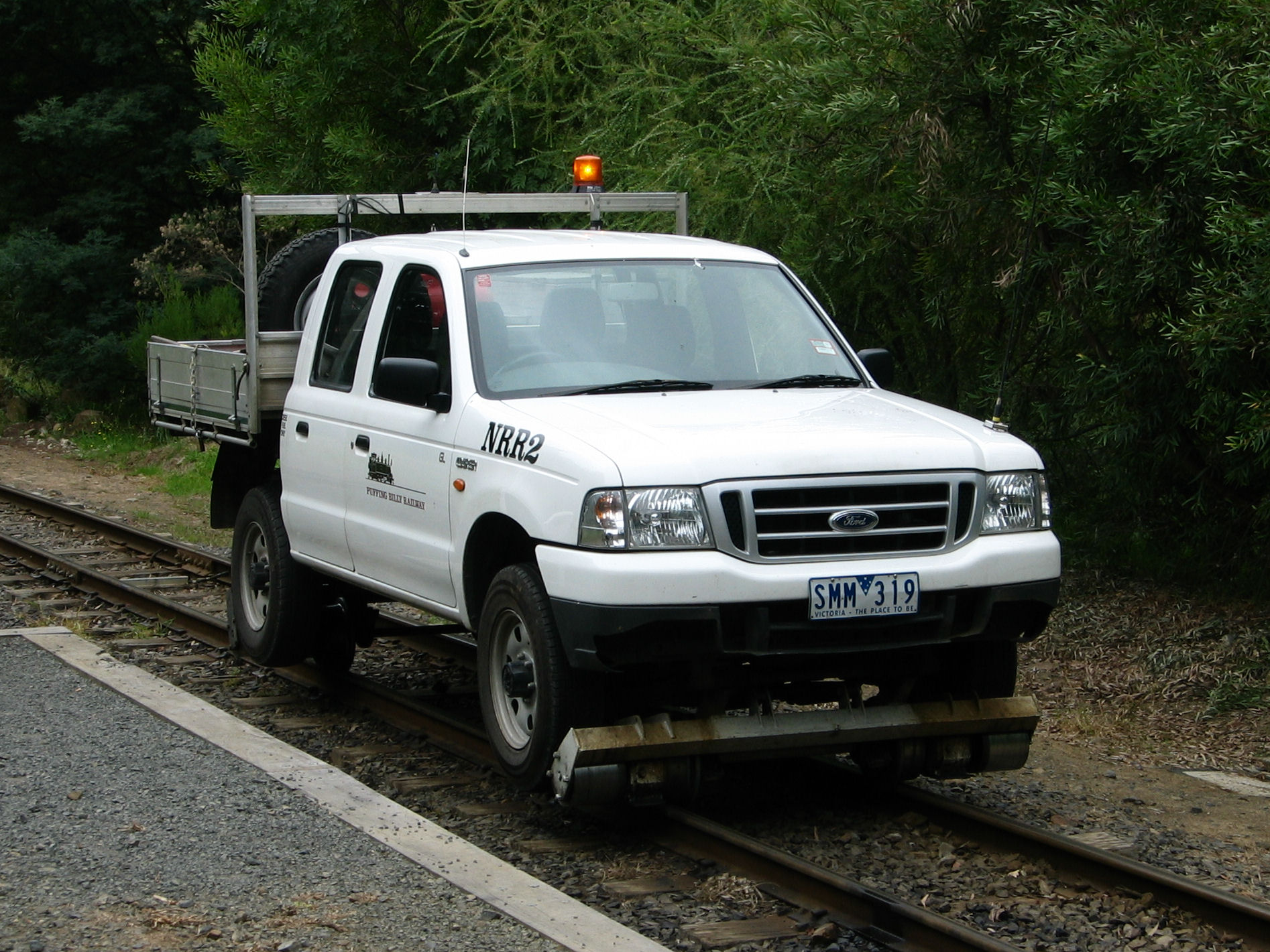 Puffing Billy Railway Car